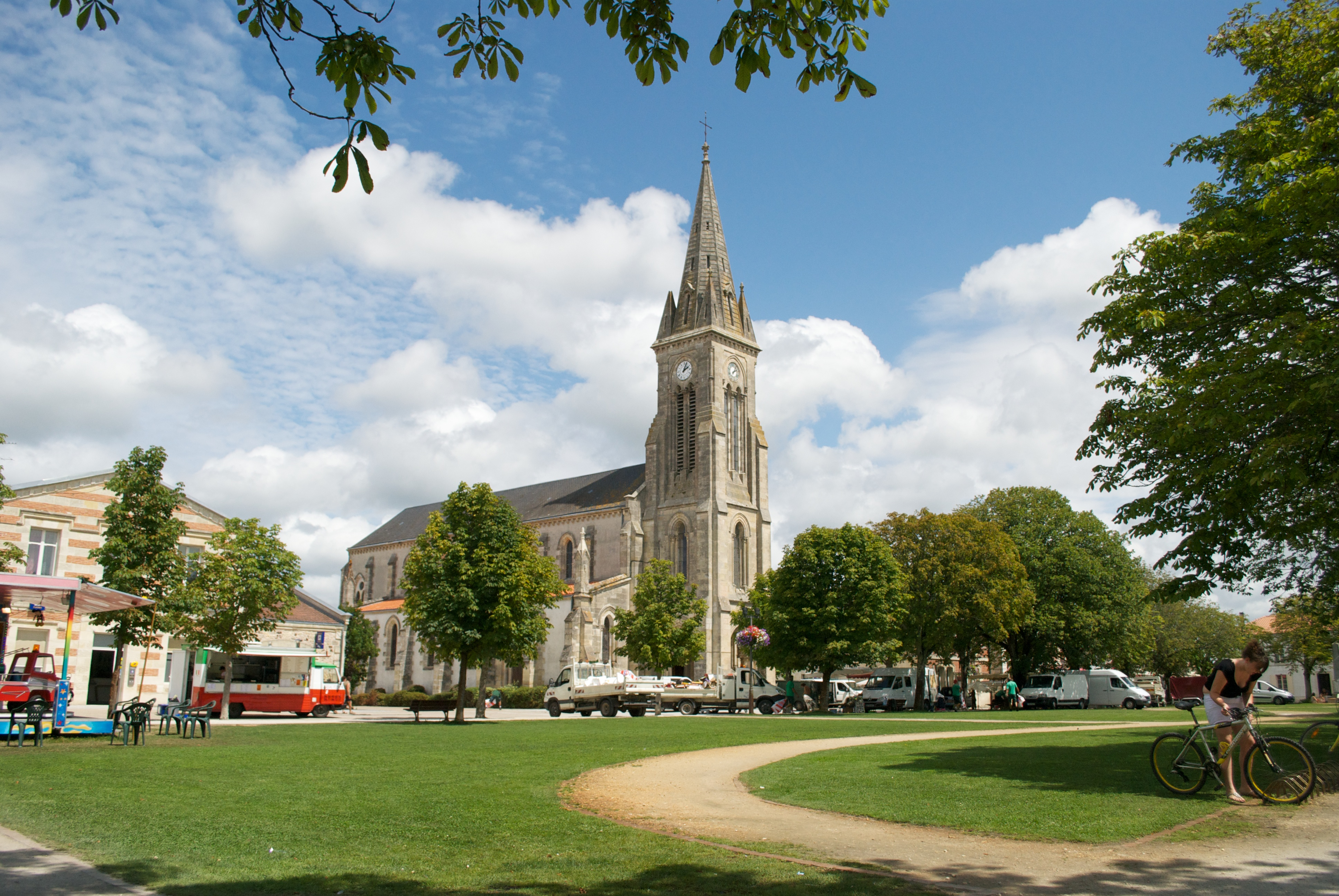 Hourtin